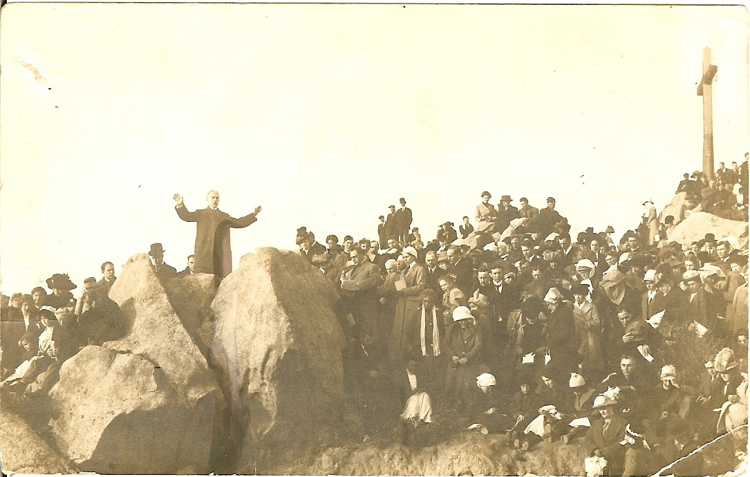 Photo postcard of Henry van Dyke offering prary services at the Mount Rubidoux Easter Sunrise services in Riverside, California on March 23, 1913.